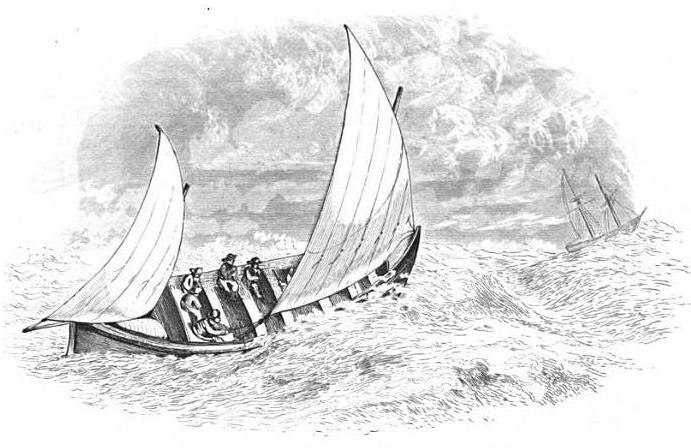 James Beechings Prize Lifeboat (1851)